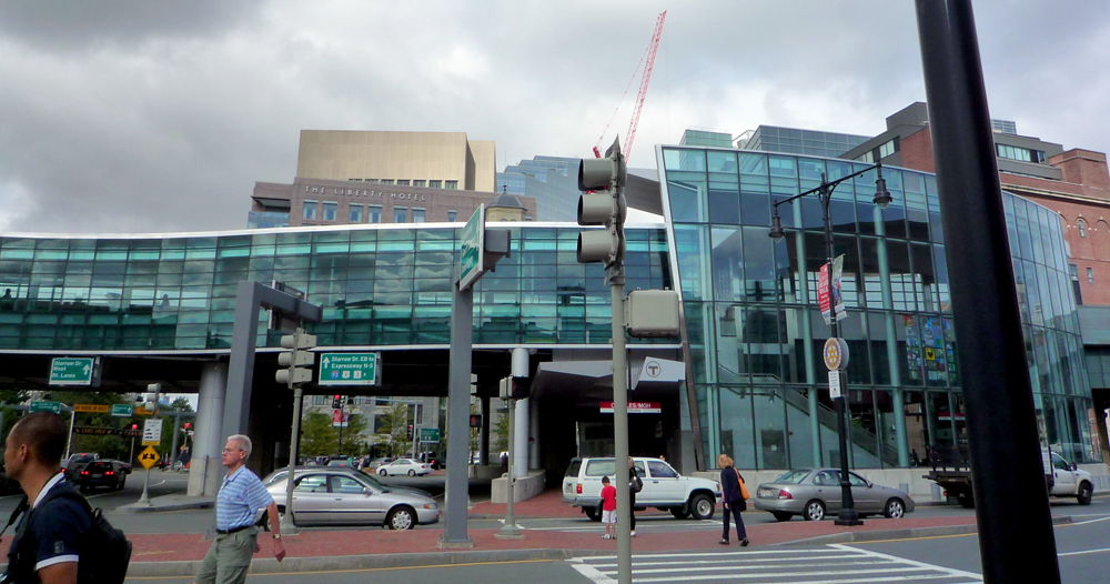 Charles/MGH station in December 2008